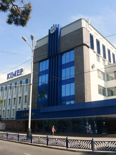 Kazakhstan Institute of Management, Economics and Strategic Research